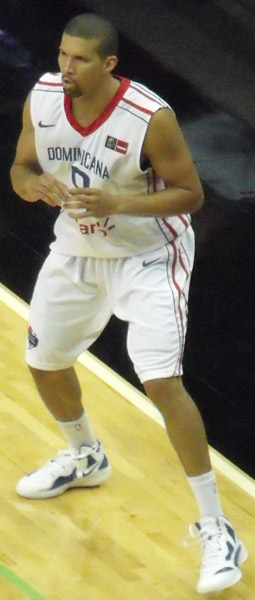 Francisco Garcia warms up before an exhibition game with the Dominican Republic National Team at the Yum! Center in Louisville, Kentucky.